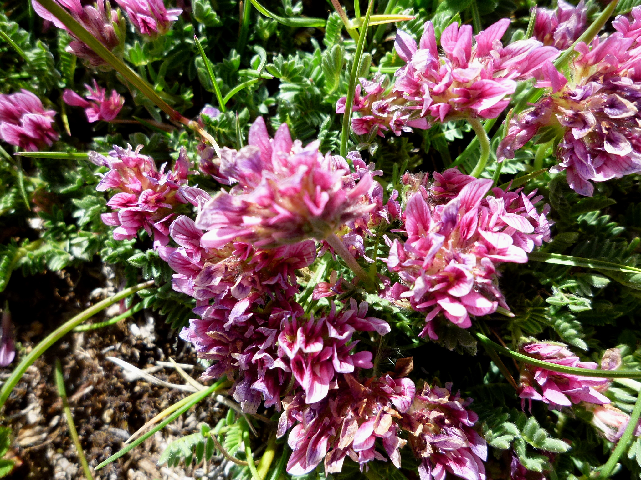 Anthyllis montana. In Muntanya d'Alinyà (Alt Urgell-Catalunya). To 1.660 m. altitude